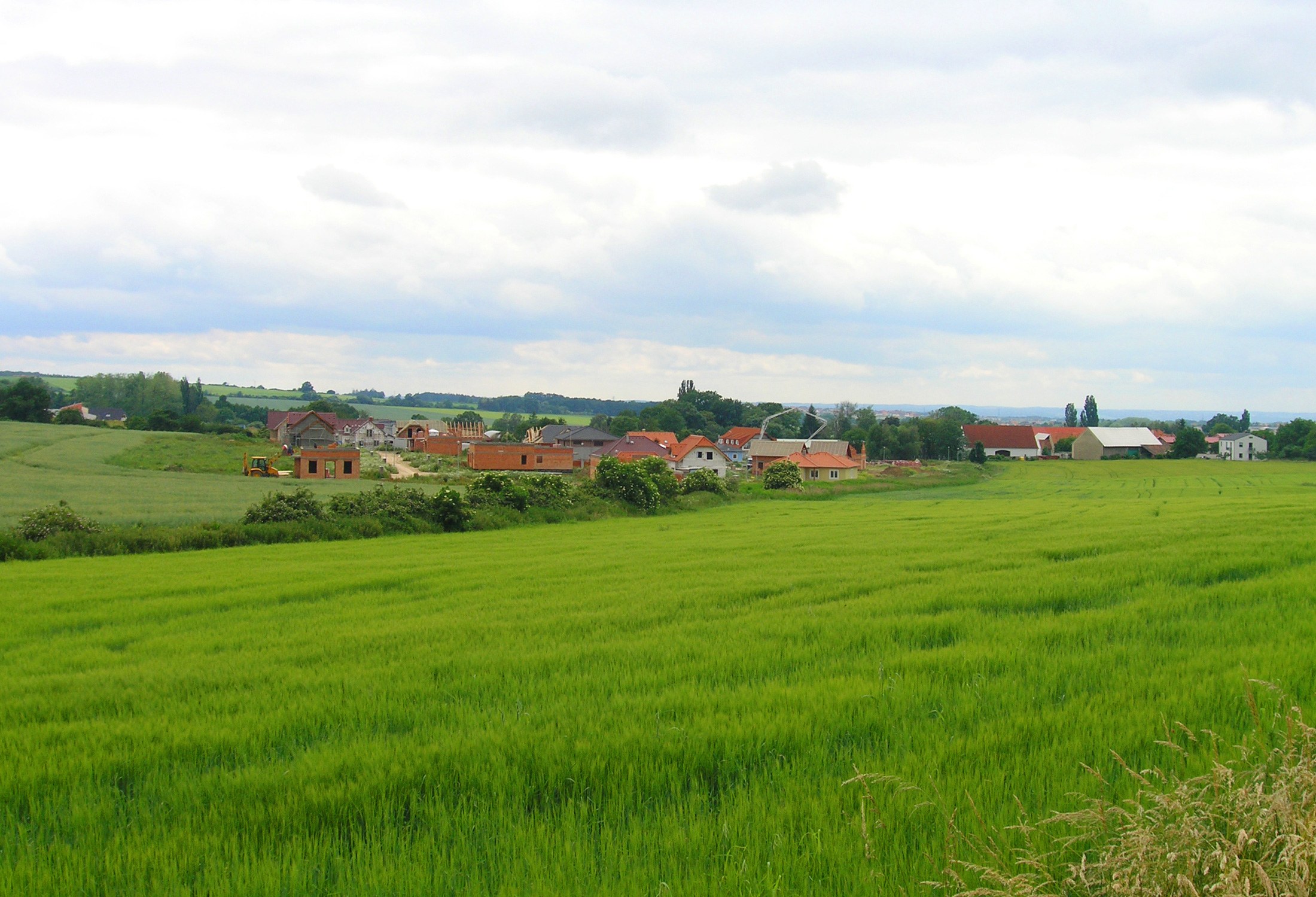 South view of new housing in Herink, Czech Republic